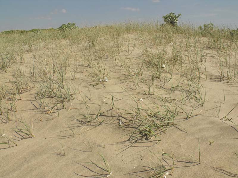 Agropyron junceum photographed on Castel Fusano littoral dunes (Rome province, Latium, central Italy). Photo by Marcelli Massimiliano